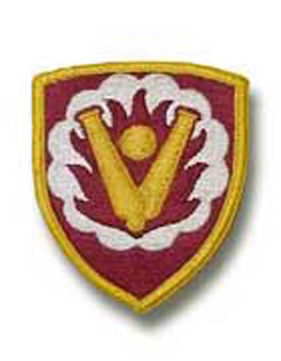 59th Ordnance Brigade